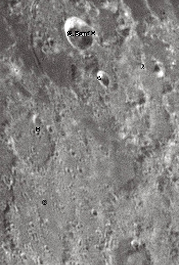 G.Bond lunar crater as seen from Earth with satellite craters labeled